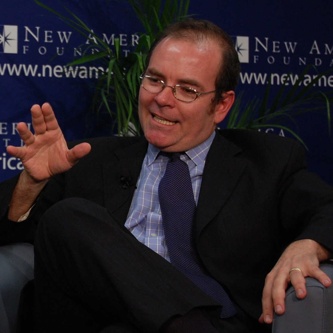 Josh Marshall at a New America event in 2010